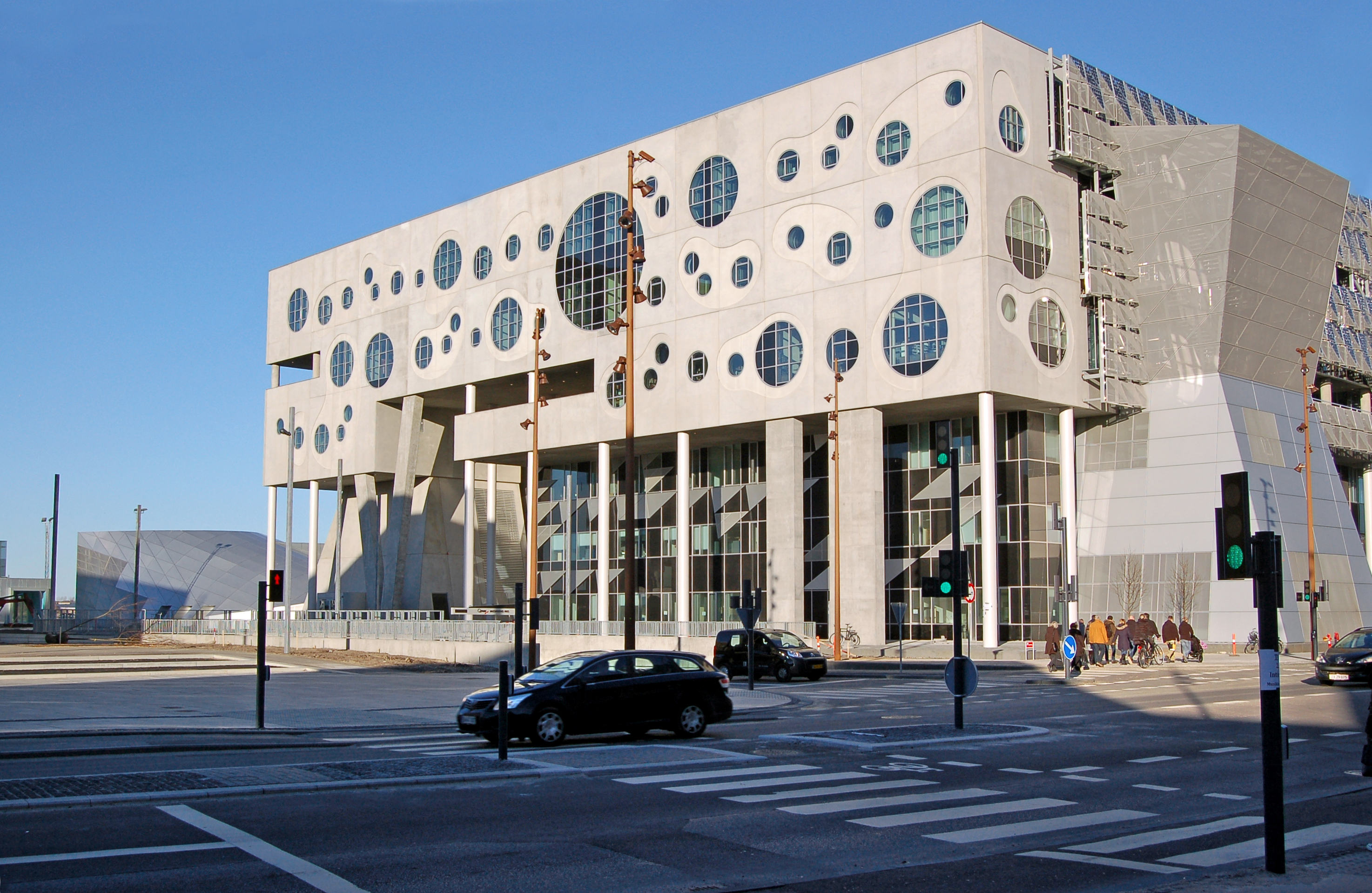 House of Music in Aalborg seen from westDansk: Musikkens Hus i Aalborg set fra vest